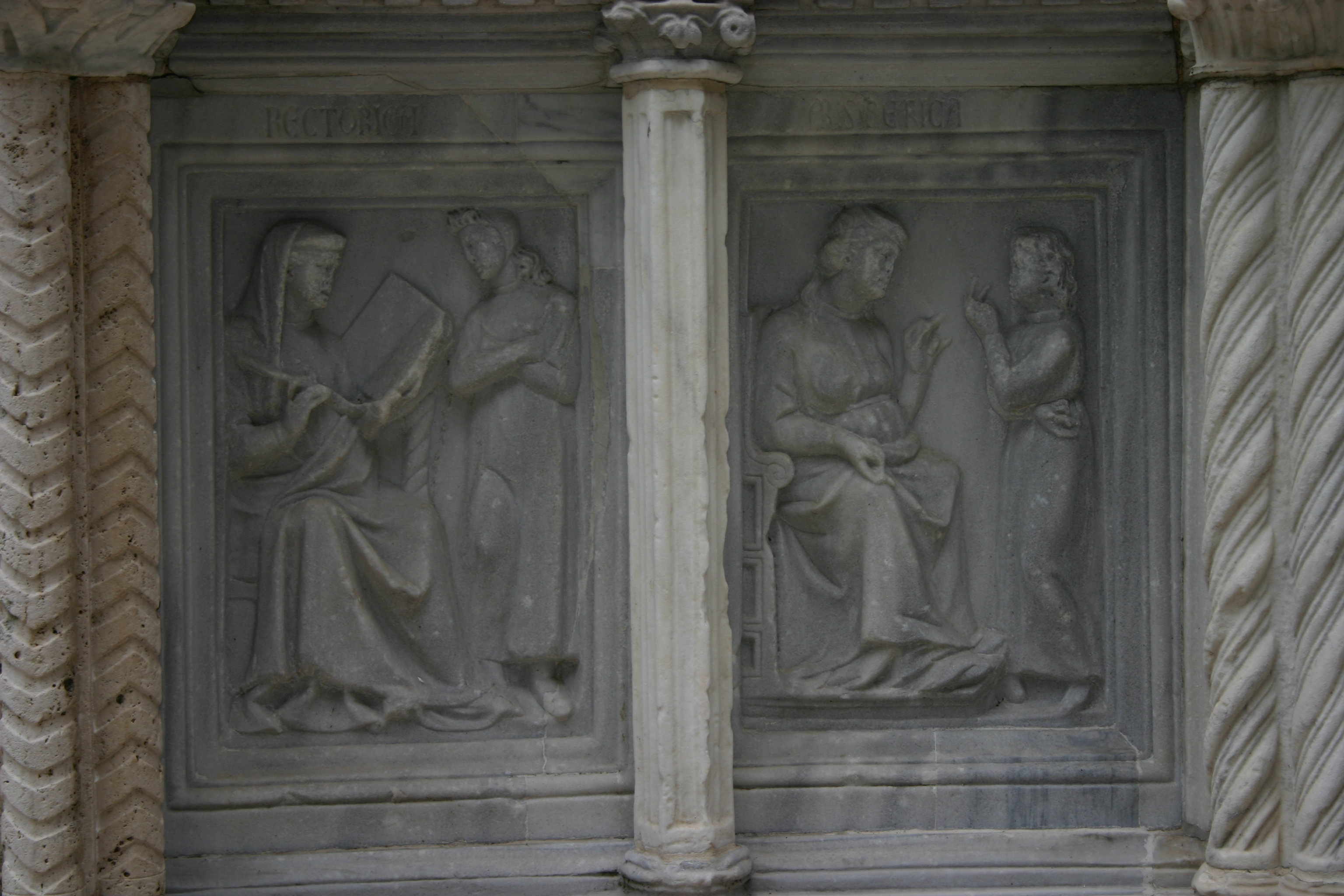 Perugia, the Fontana Maggiore (Main Fountain), sculpted after 1275 by Nicola Pisano and Giovanni Pisano. The Seven Liberal arts: Rettorica et Arithmetica. Picture by Giovanni Dall'Orto, August 5, 2006.